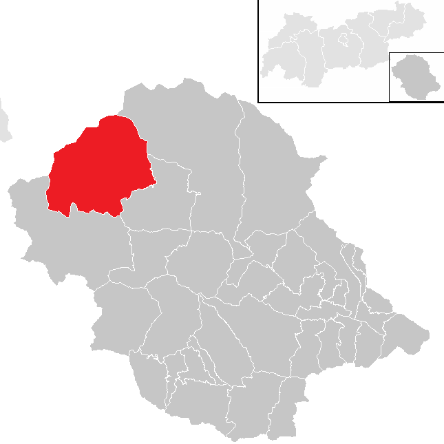 District Lienz